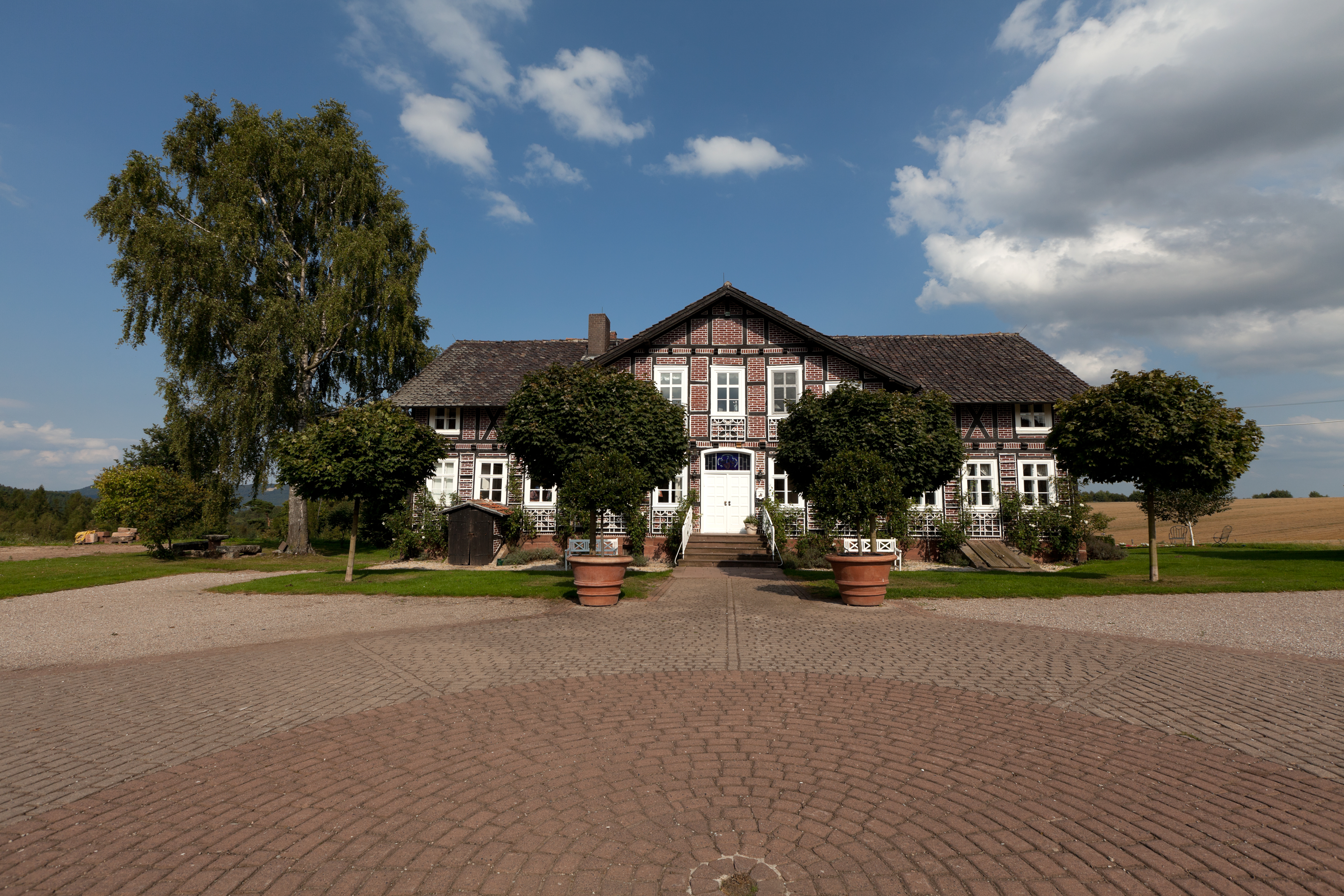 Main building of Gut Marienhof, an estate near Völkershausen (Wanfried), Hesse, Germany. In this part of Hesse cadastral units are used to identify heritage sites, rather than IDs. Cadastral unit for this heritage site: plot 1, parcel 25/3.